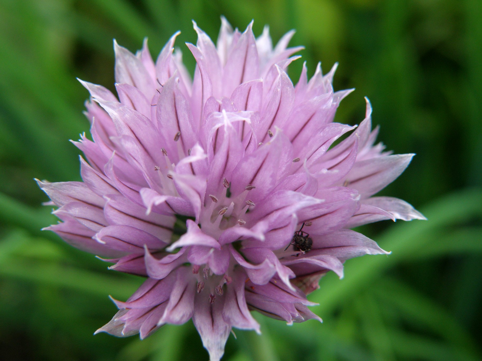 Allium schoenoprasum